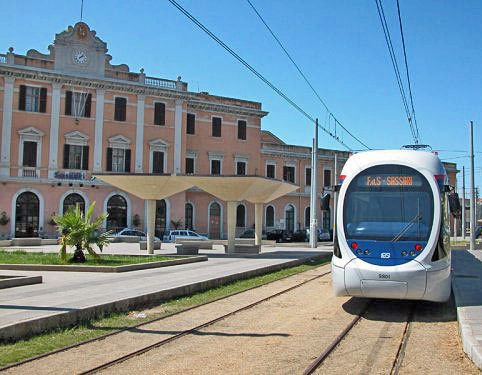 Tram Sirio - Terminal of line 1 in Railway Station Square (Sassari - Sardinia)